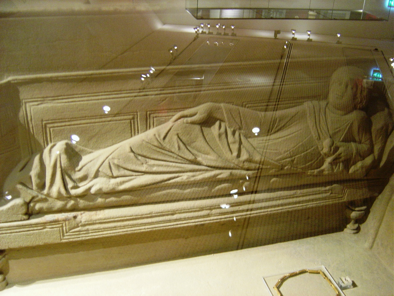 Sarcofague of Simpelveld interior with an image of the lady resting on a coach